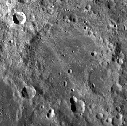 LRO-WAC Szilard is the big crater at center, with floor crossed by bright rays from Giordano Bruno, at upper left